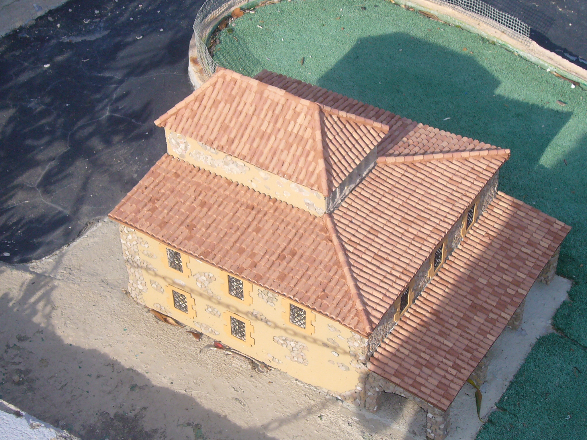 Scale model at the "Catalunya en Miniatura" miniature park : La Masia of FC Barcelona